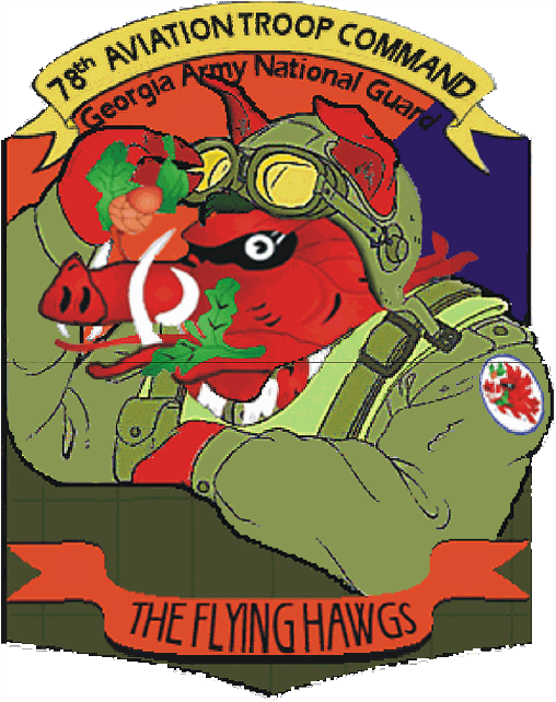 78th atc